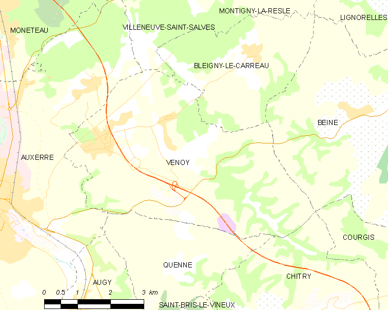 Map of French municipality Venoy